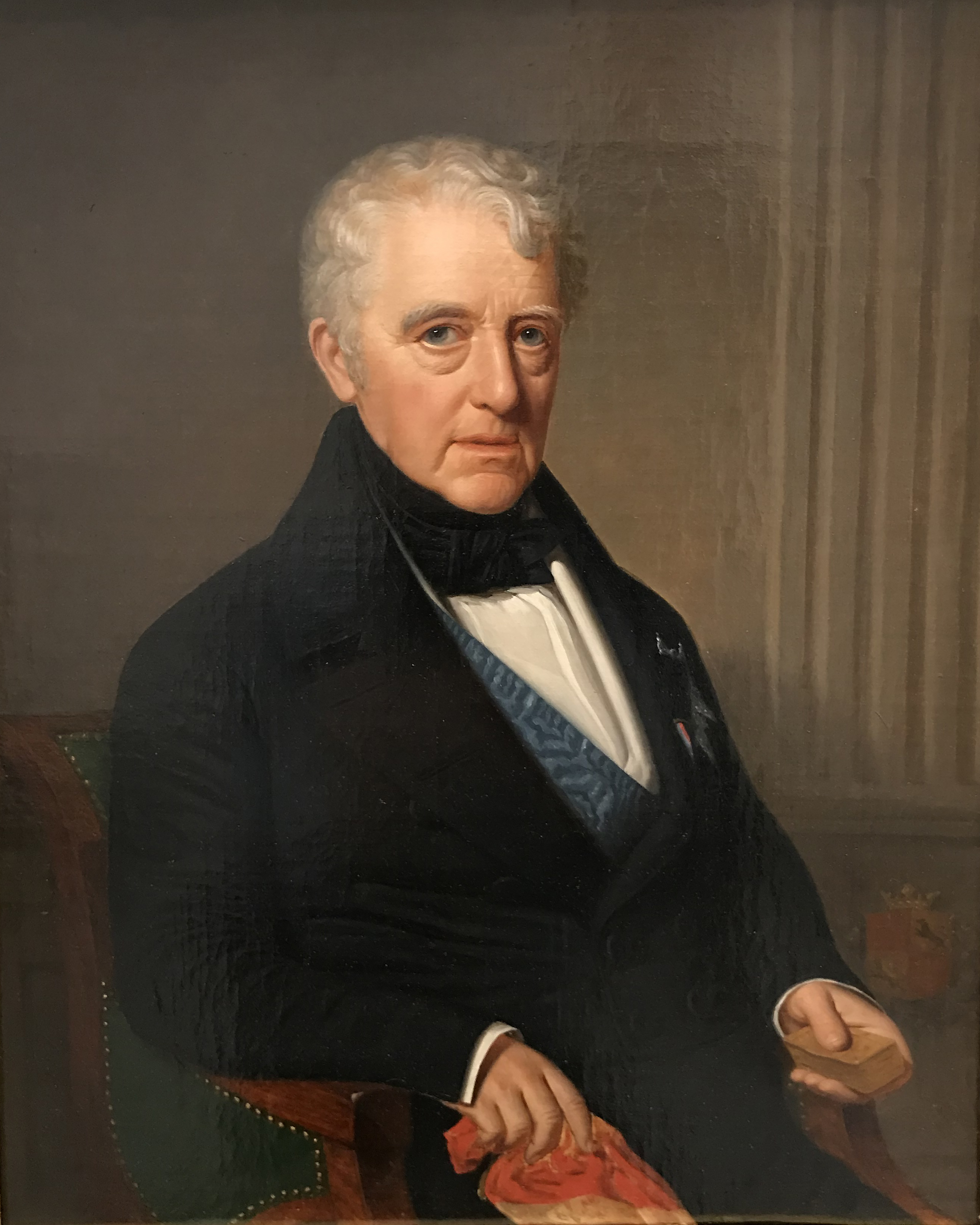 Carl Löwenhielm (1772-1861), Swedish count, officer, diplomat and politician. Probably the illegitimate son of King Charles XIII of Sweden.